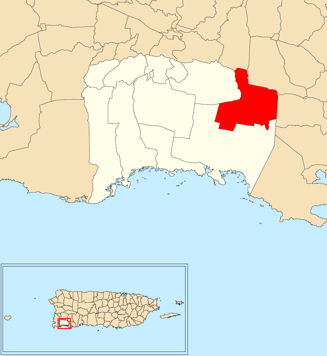 Plata, Lajas, Puerto Rico locator map